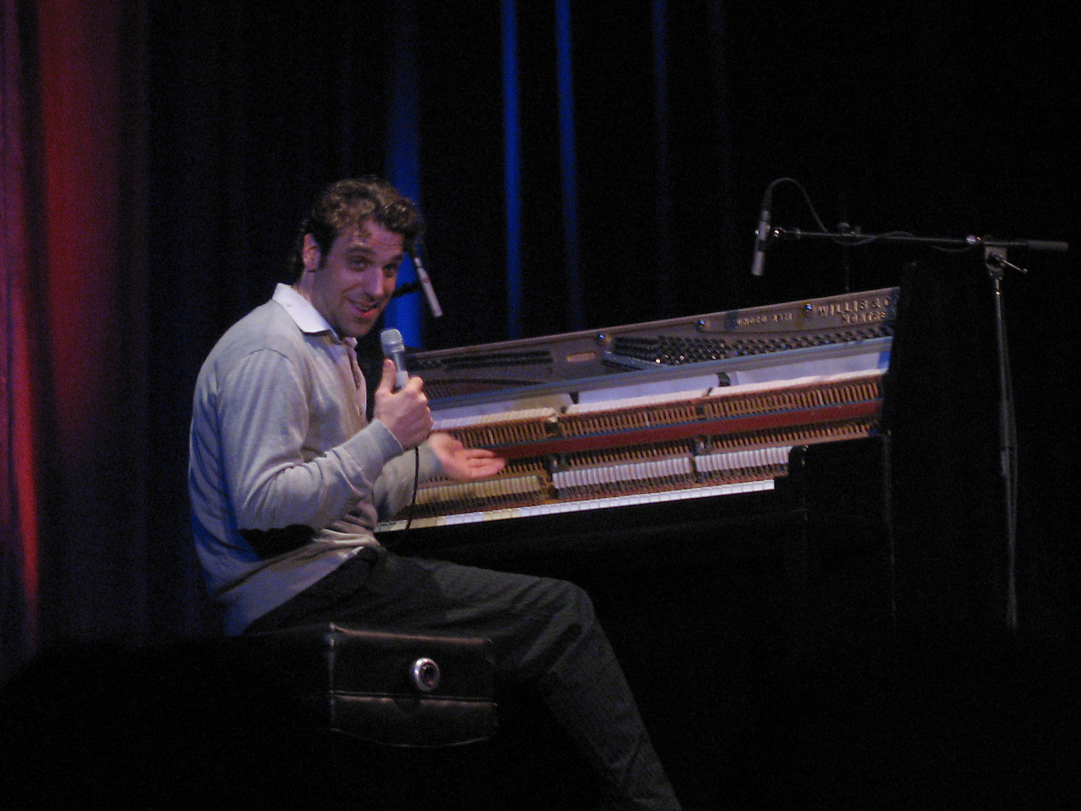 Canadian Musician Gonzales at a concert with canadian musician Socalled at the Théatre National in Montreal, Canada